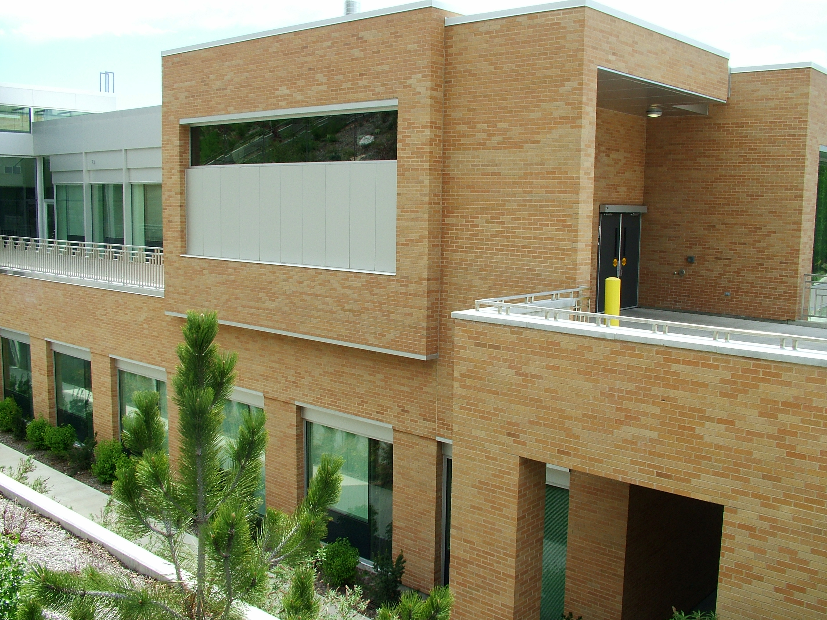 The new addition of BYU's Stephen L. Richards Building on the Provo, Utah, campus.